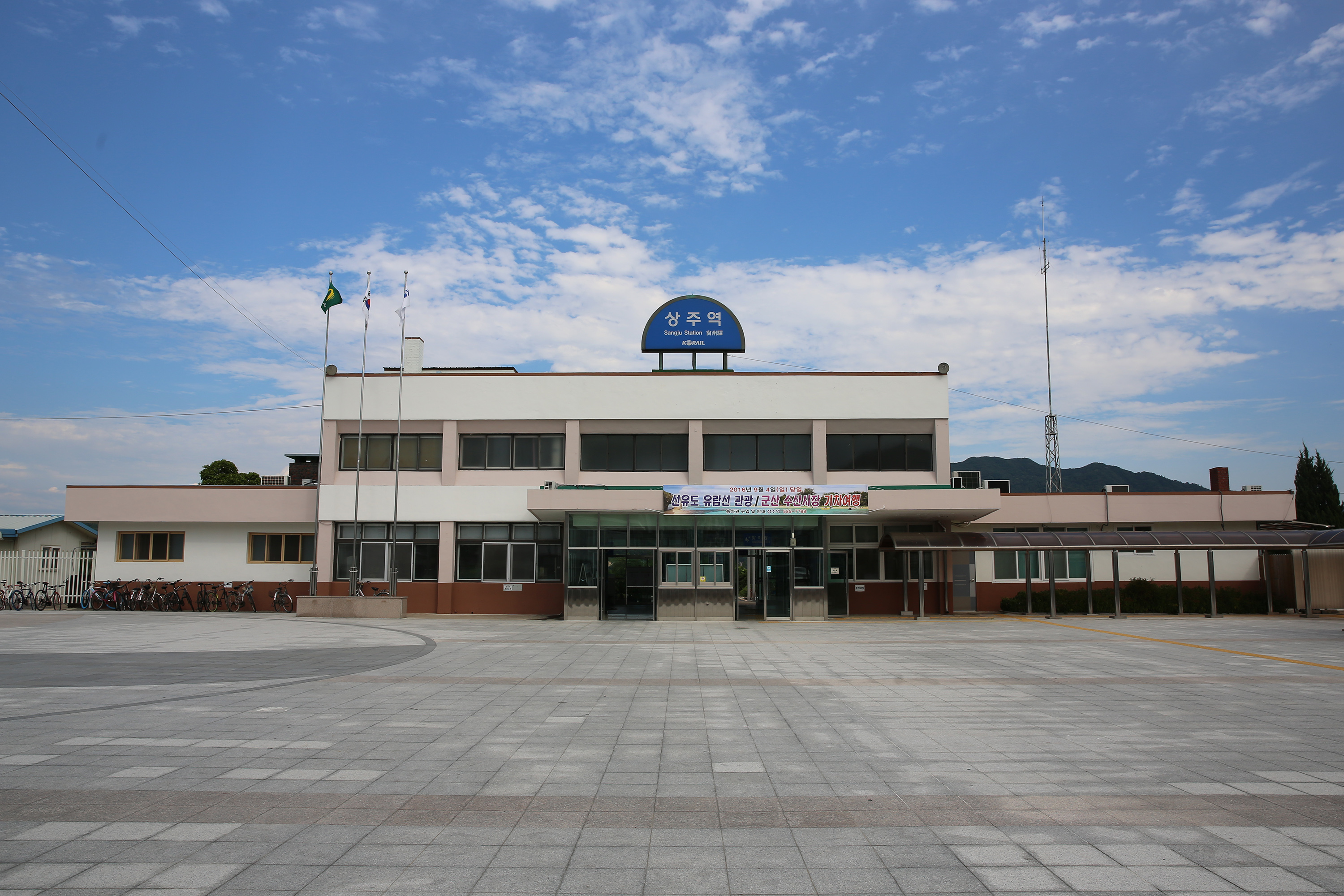 Obverse from Square of Sangju Station